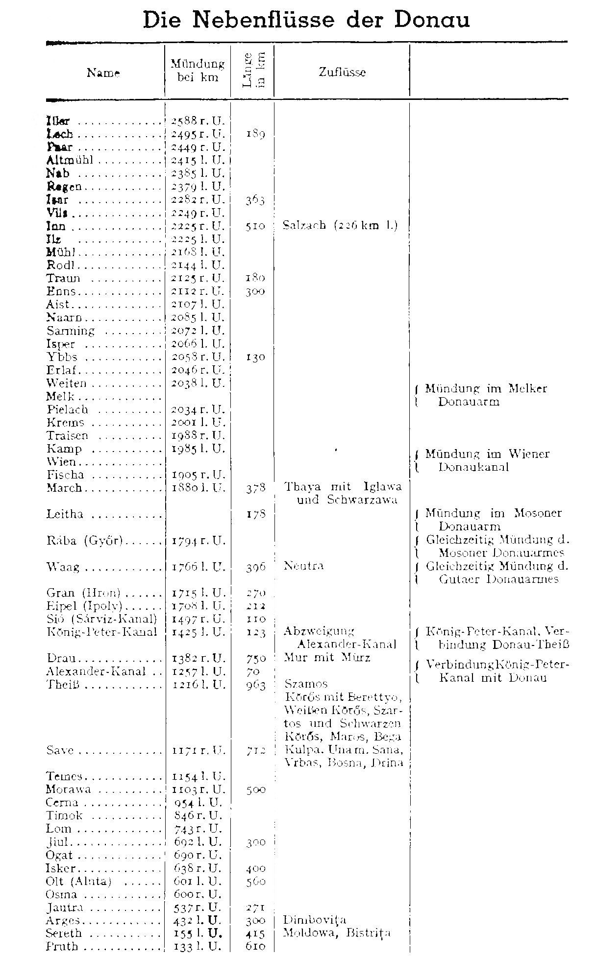 List of all rivers flowing into the Danube river, from Iller (kilometer 2588) to Pruth (kilometer 133 from river delta at the Black Sea upwards), from p. 25 of the Handbook for Danube Travels, Jubilee Edition 1835 - 1935, published by First Danube Steamship Company (I. DDSG), Vienna